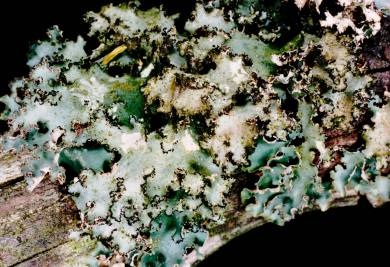 Tuckermannopsis ciliaris